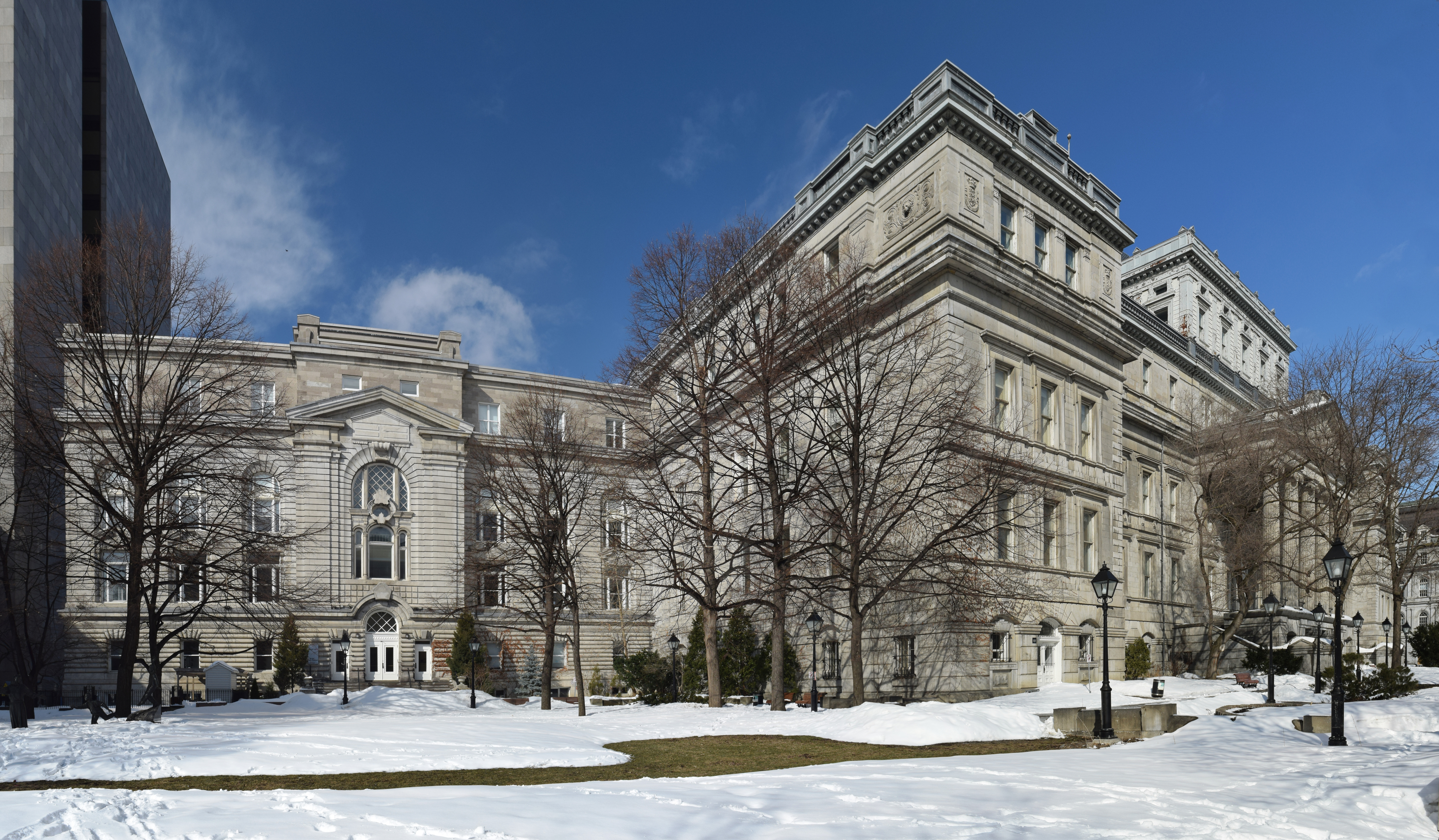 Old Montreal Courthouse.